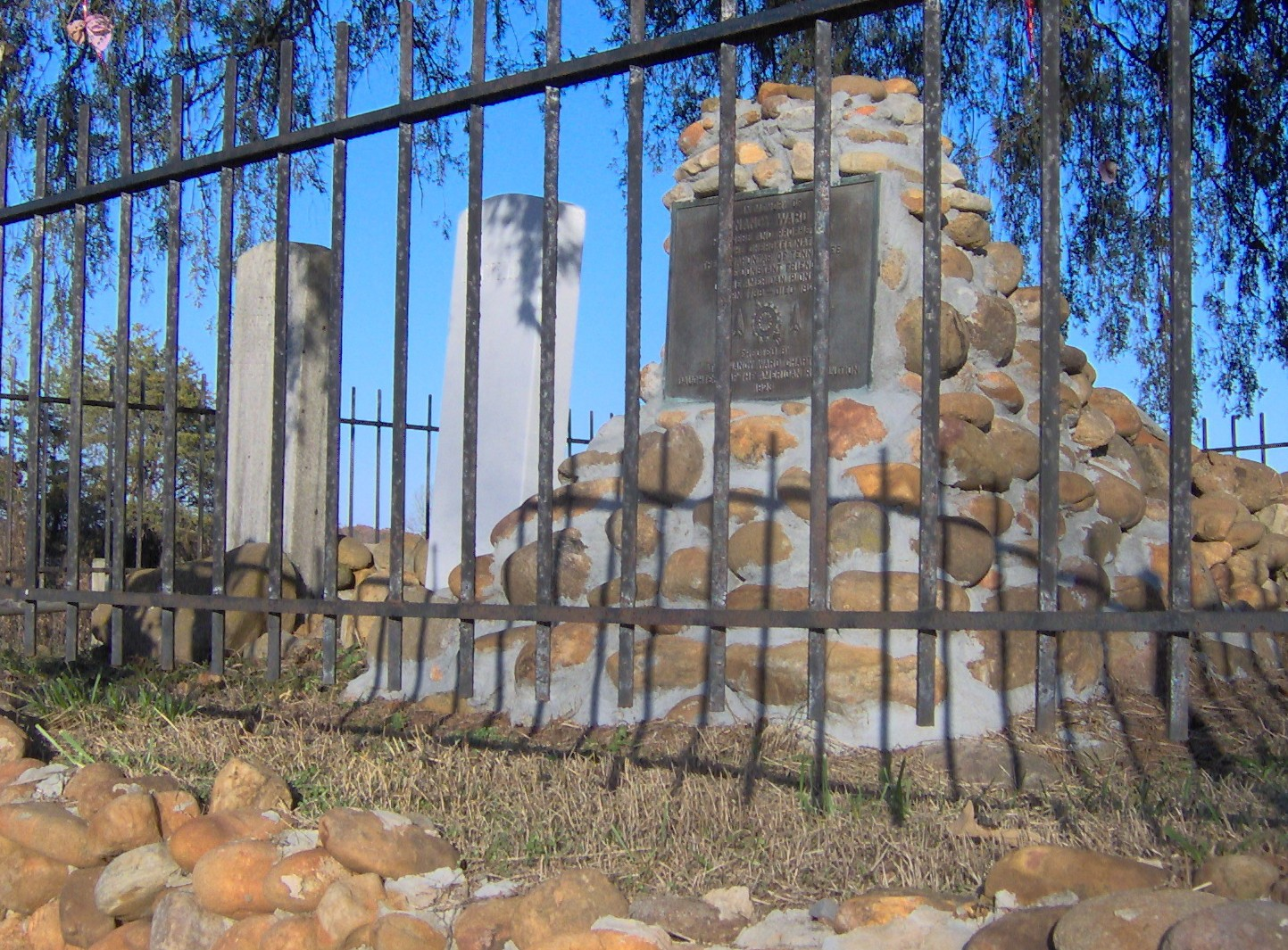 The grave of Cherokee "Beloved Woman" Nancy Ward (right, with the plaque) and her son, Fivekiller (left), and her brother, Longfellow (middle) near Benton, Tennessee, in the Southeastern United States. This small cemetery is situated along US-411 on a small hill overlooking the Ocoee River. The plaque reads: IN MEMORY OF NANCY WARD PRINCESS AND PROPHETESS OF THE CHEROKEE NATION THE POCAHONTAS OF TENNESSEE THE CONSTANT FRIEND OF THE AMERICAN PIONEER BORN 1738 - DIED 1822 ERECTED BY THE NANCY WARD CHAPTER DAUGHTERS OF THE AMERICAN REVOLUTION 1923